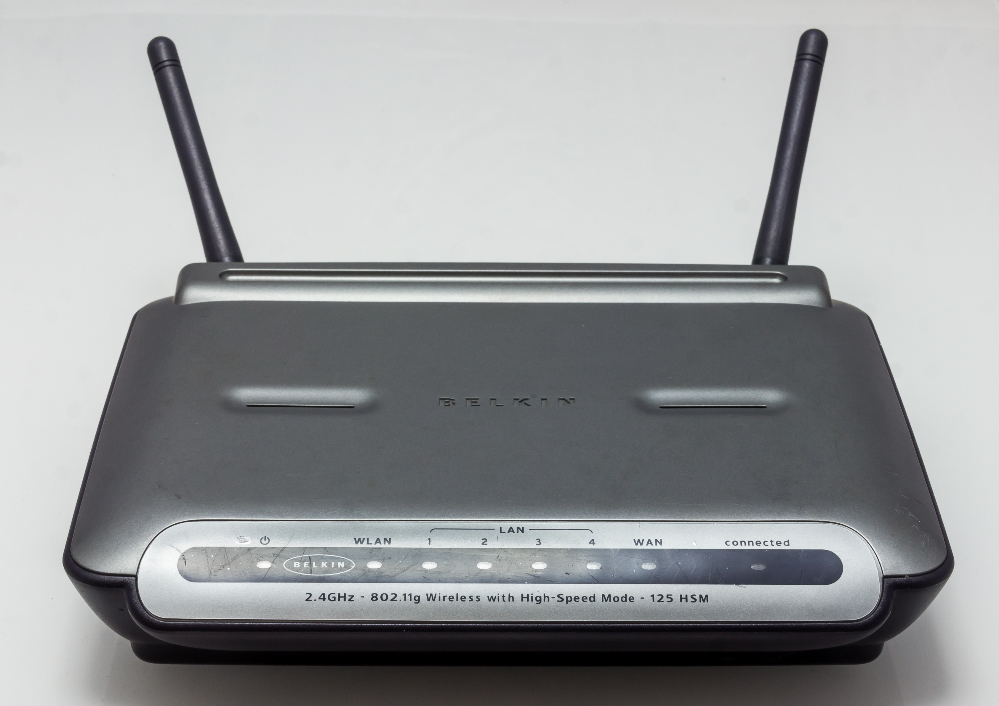 Belkin Wireless G Router F5D7231-4 Version 1000de